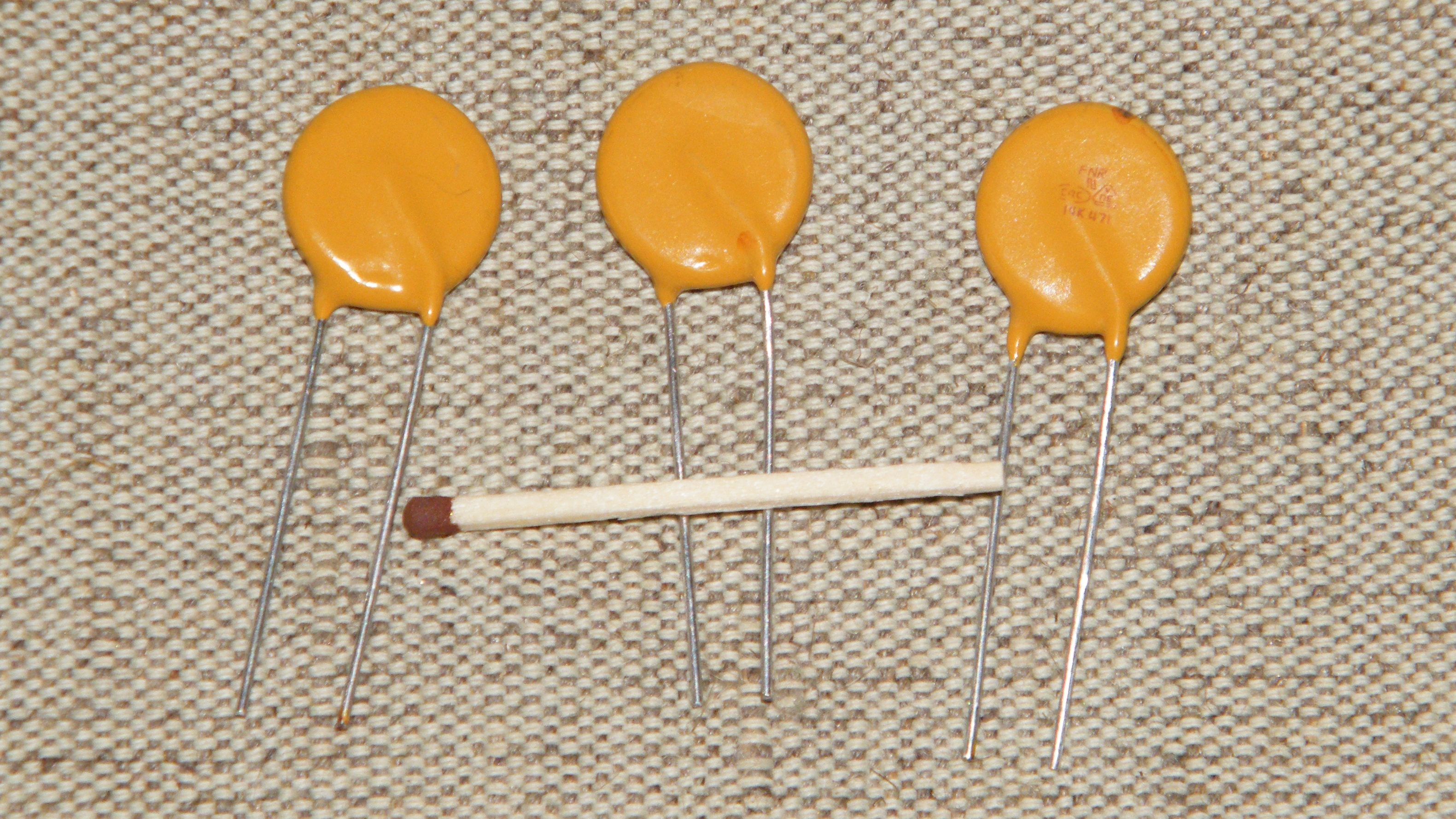 Varistors